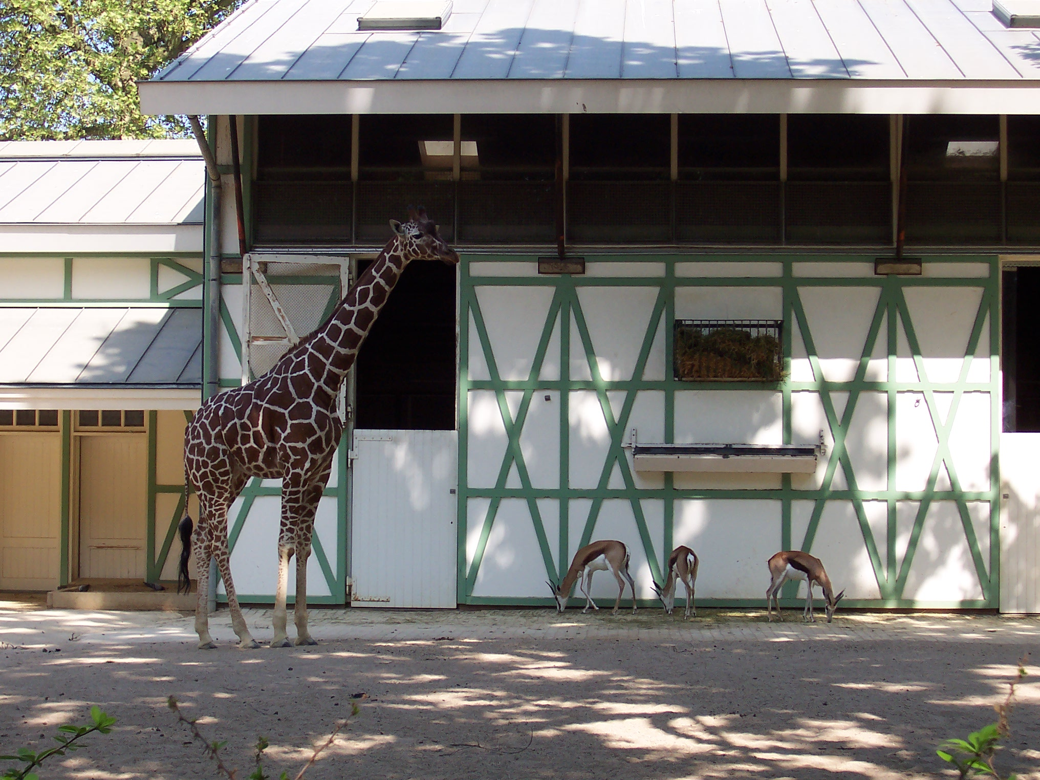 Reticulated Giraffe and Springbucks in Artis Zoo, Amsterdam